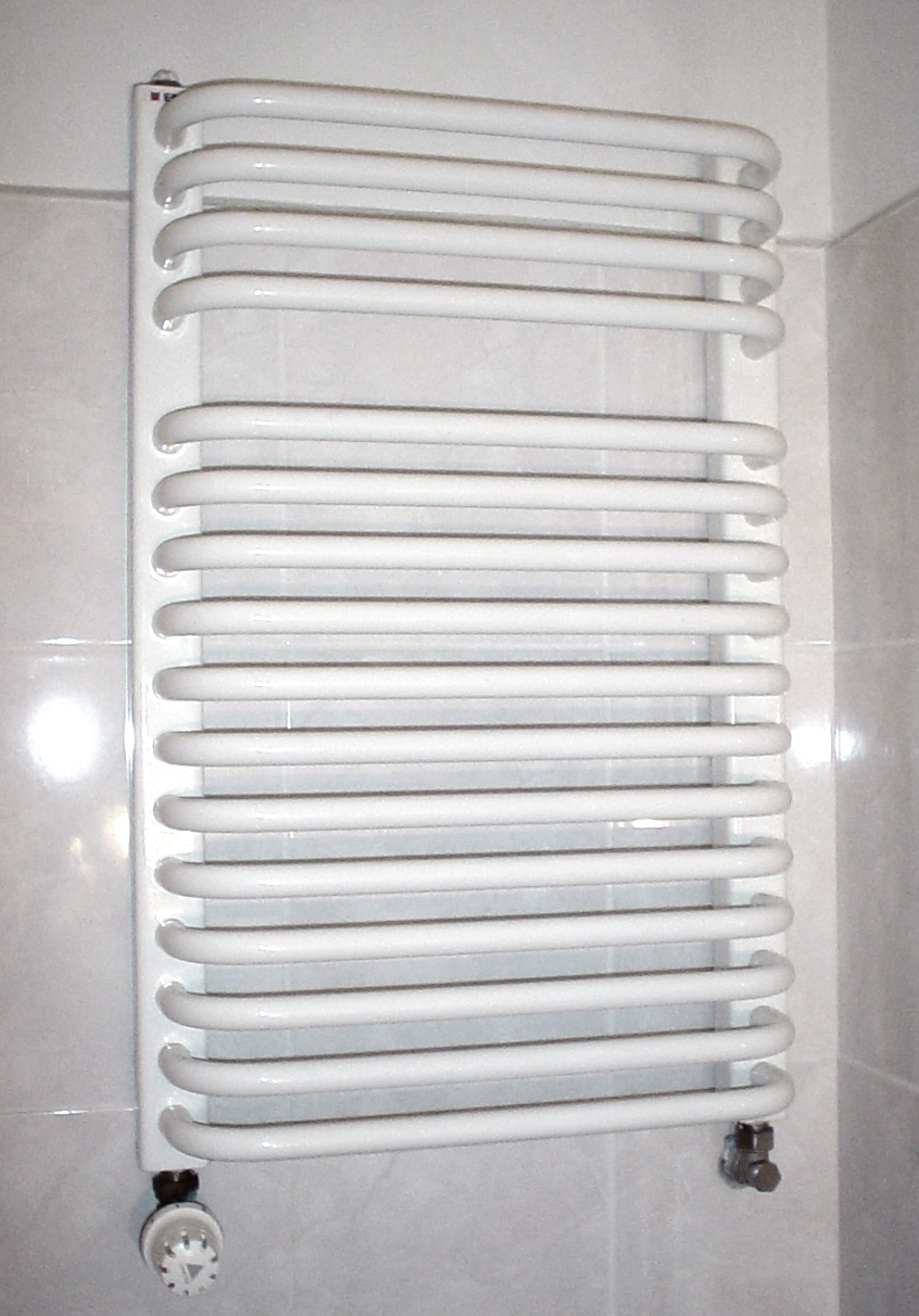 Radiator